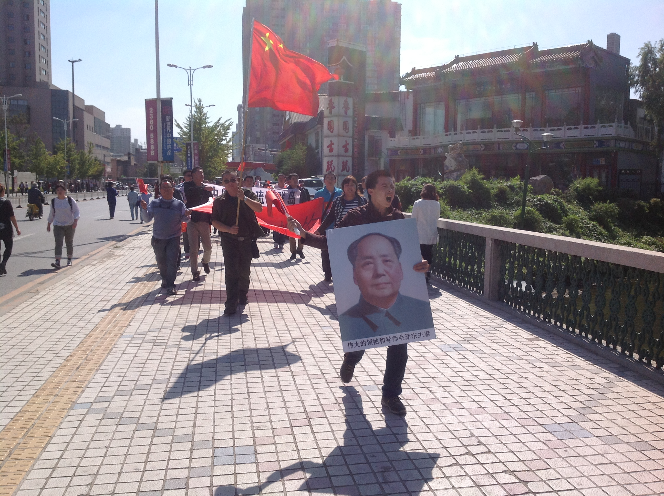 918 Shenyang Anti-Japan Demonstration (2012).